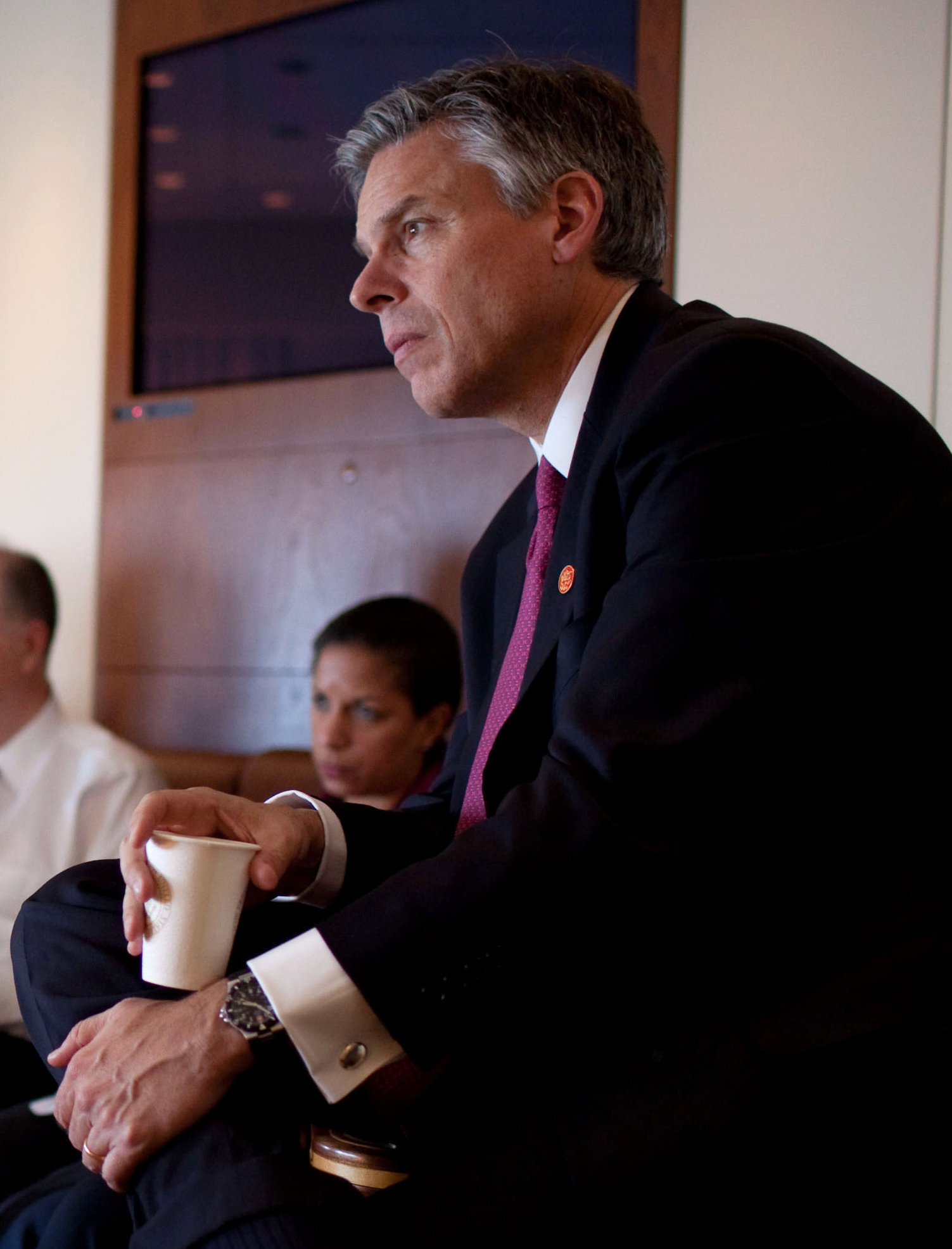 U.S. Ambassador to China Jon Huntsman listens as President Barack Obama meets with advisors on Air Force One en route to Beijing, China, Nov. 16, 2009. (Official White House Photo by Pete Souza)